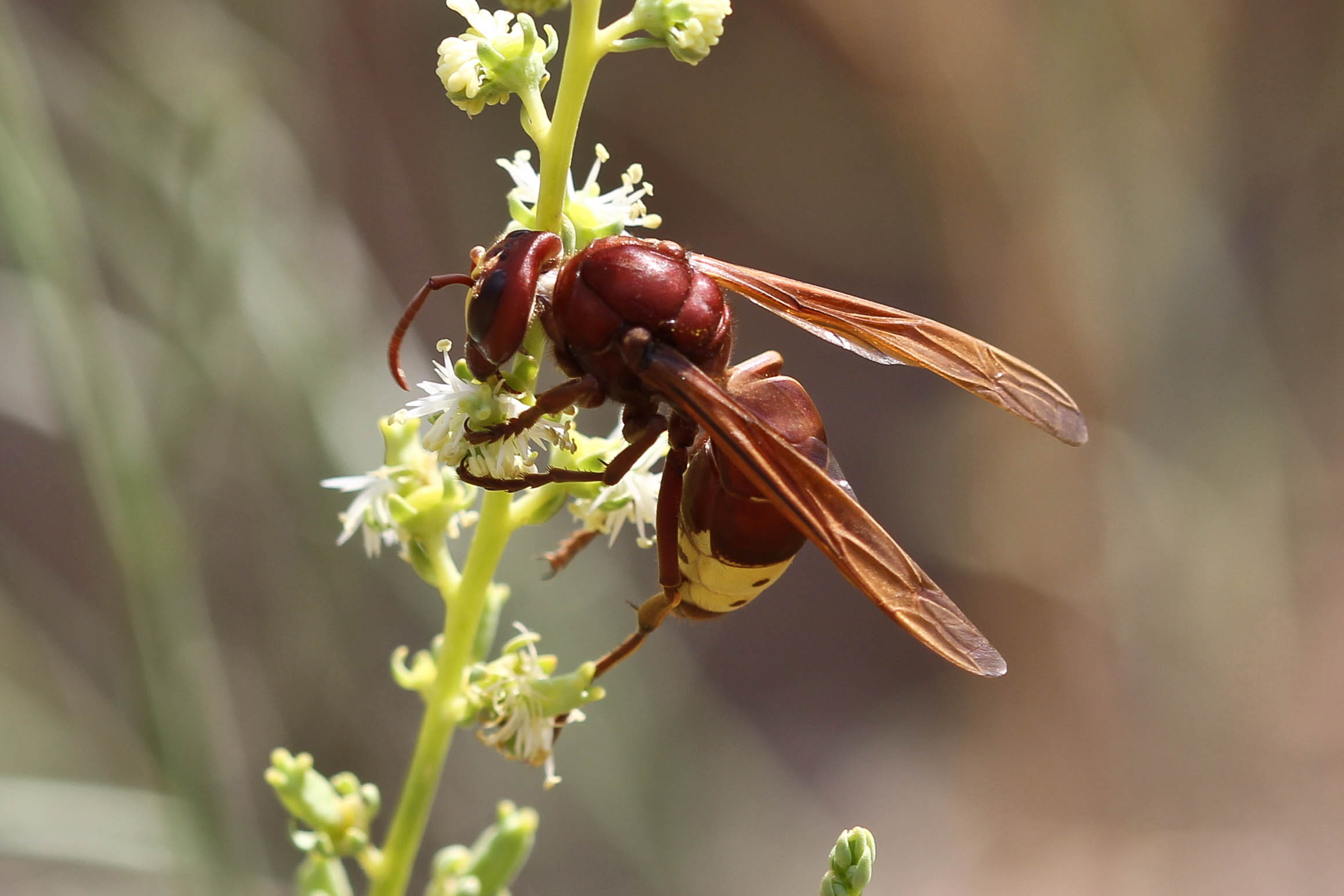 Oriental wasp (Vespa orientalis)